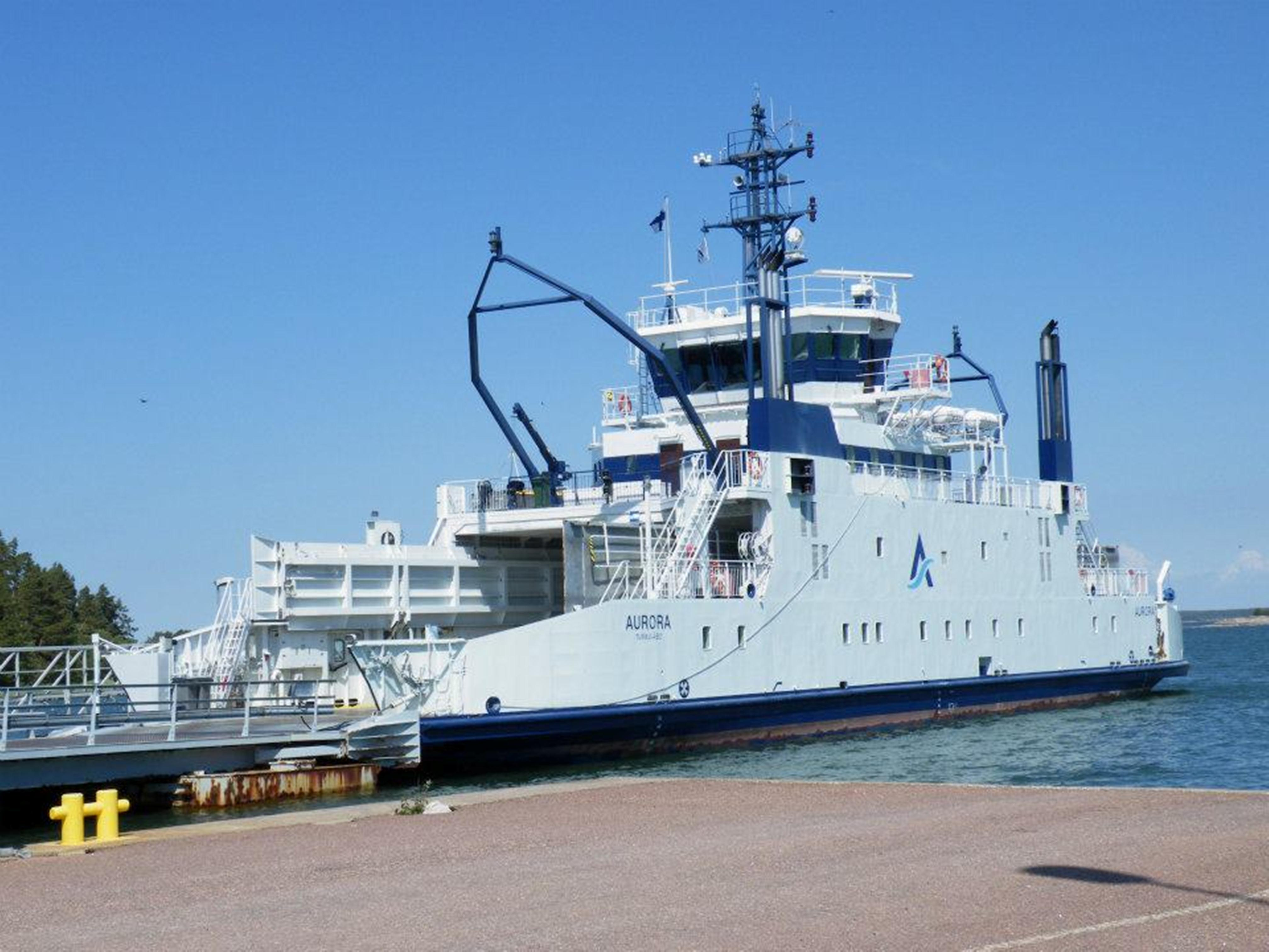 MS Aurora (IMO 9126792) in Iniö, Pargas, Finland.